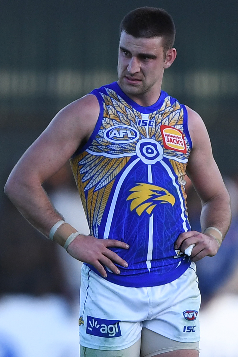 Elliot Yeo of West Coast during the 2019 AFL round 18 match between Melbourne and West Coast at Traeger Park on Sunday, 21 July 2019 in Alice Springs, Northern Territory.